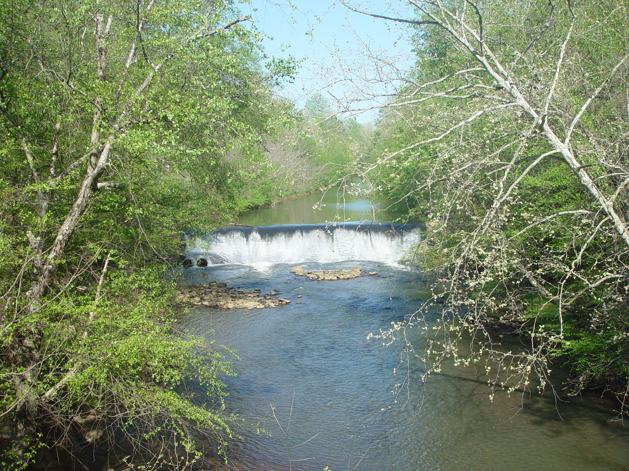 Big Creek Dam located on Oxbo Road (view from Bridge entering Chattahoochee River National Recreation Area), Roswell, Georgia, USA